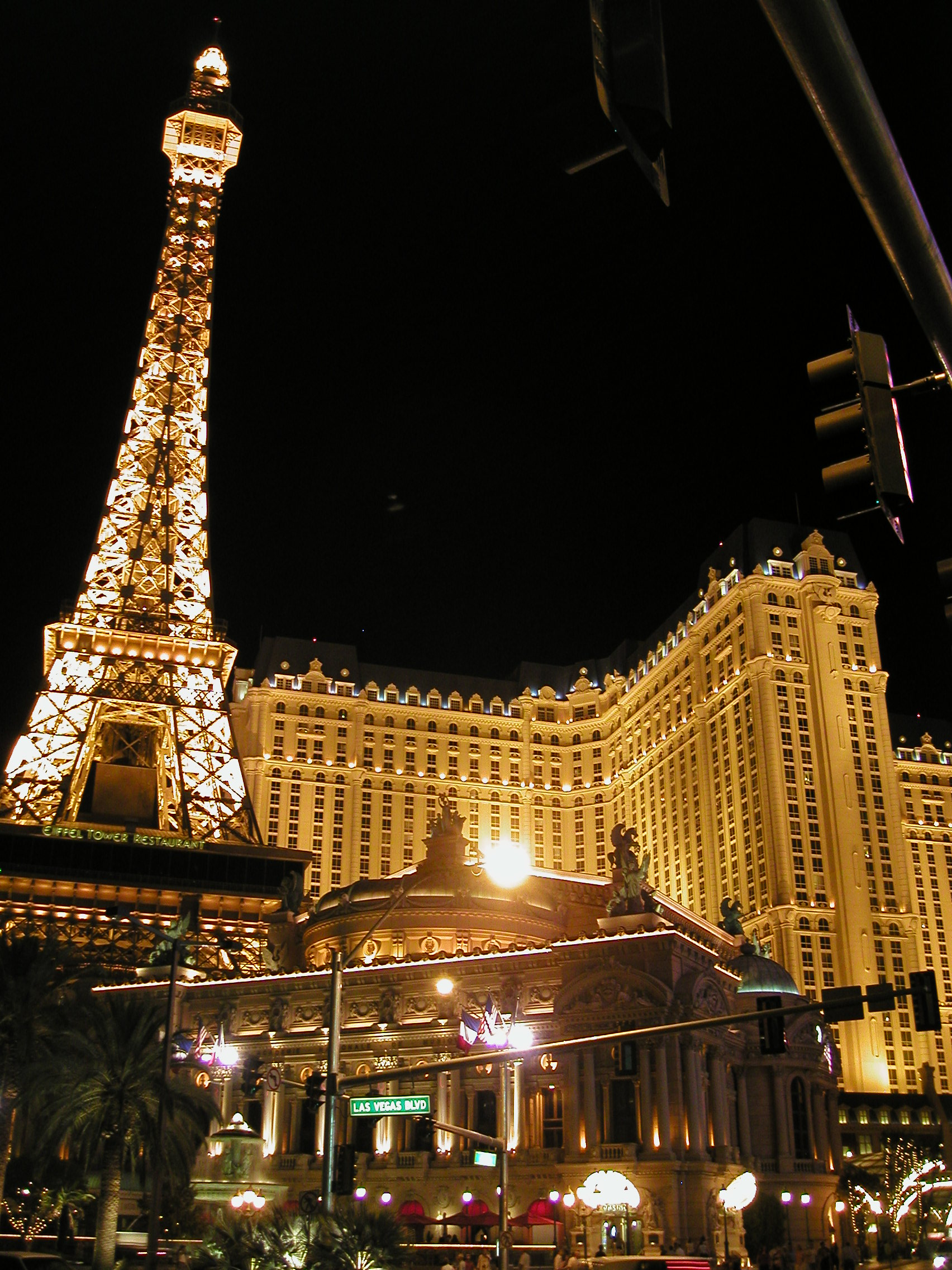 Hotel Paris in Las Vegas by Night